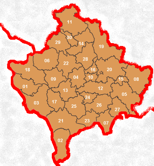 Municipalities of the Republic of Kosova